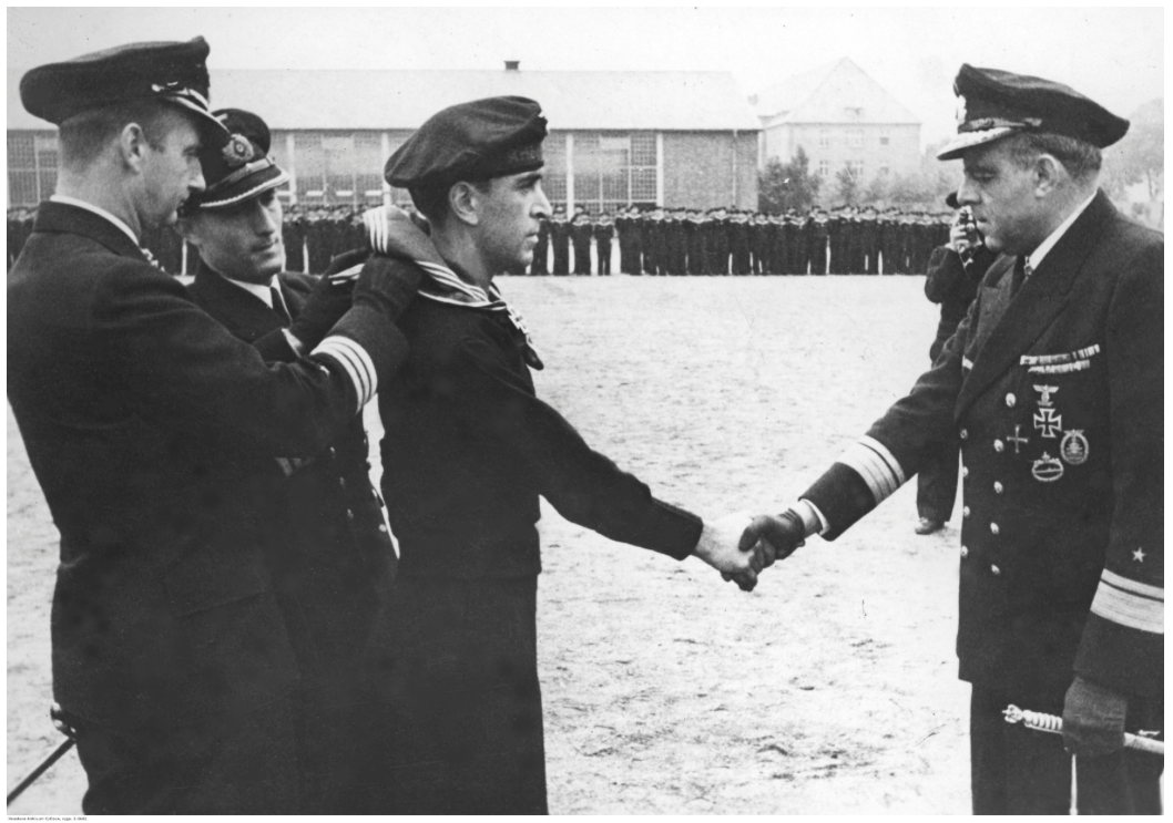 Matrosenobergefreiter Walter Gerhold is congratulated by admiral Hellmuth Heye after the presentation of the Knight's Cross.